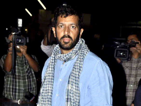 Kabir Khan (director) in Agent Vinod (2012) party